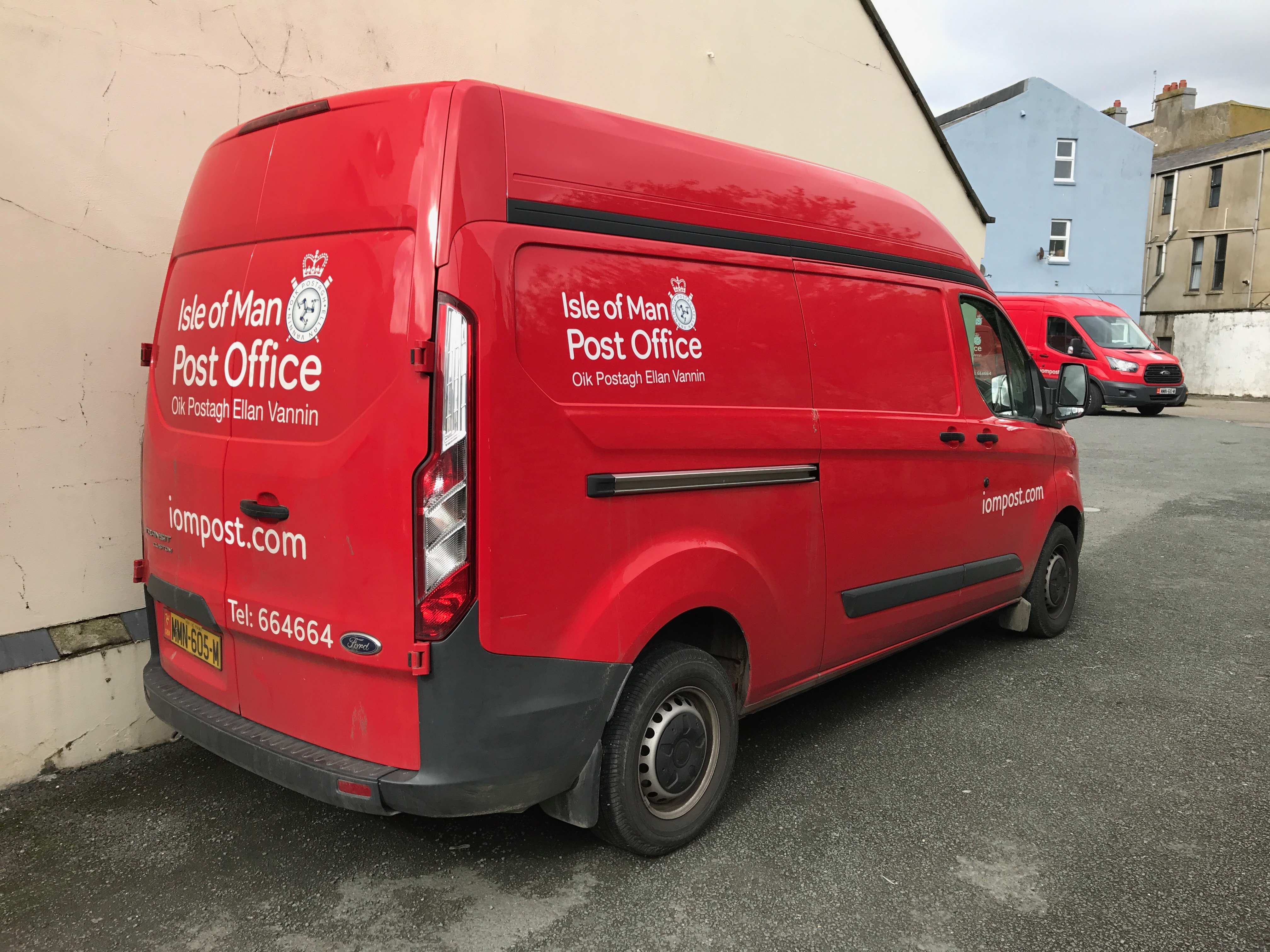 Two delivery vehicles of the Isle of Man Post Office (Oik Postagh Ellan Vannin), the national postal service of the Isle of Man, in the Post Office yard at Peel.